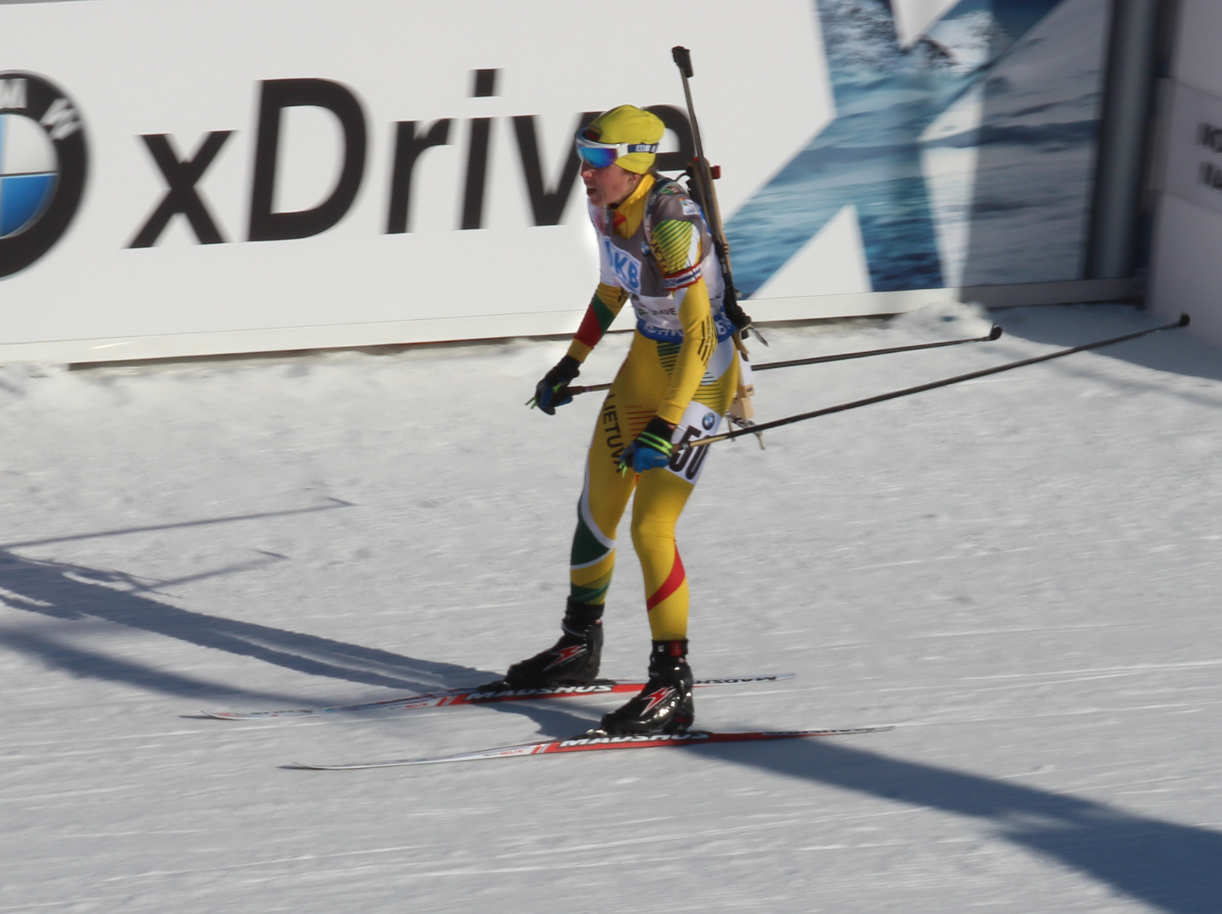 Natalija Kočergina at Biathlon World Cup 2015 in Nové Město, Czech Republic – sprint women